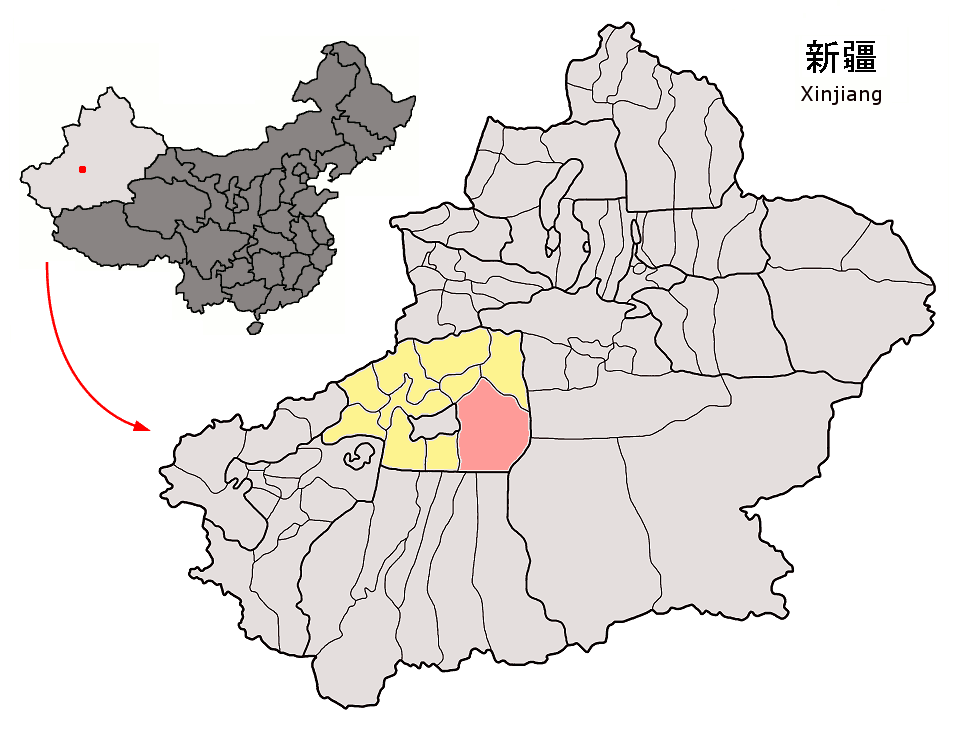 Location of Shayar County (pink) and Aksu Prefecture (yellow) within Xinjiang autonomous region of China Map drawn in september 2007 using various sources, mainly : Xinjiang Uygur autonomous region administrative regions GIS data: 1:1M, County level, 1990 Xinjiang Counties map from